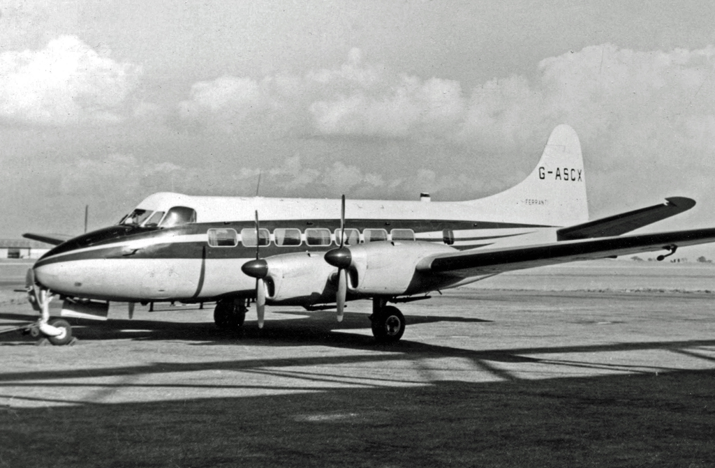 DH.114 Heron 2D G-ASCX at Manchester Airport in 1967. Operated by Ferranti as an executive transport.